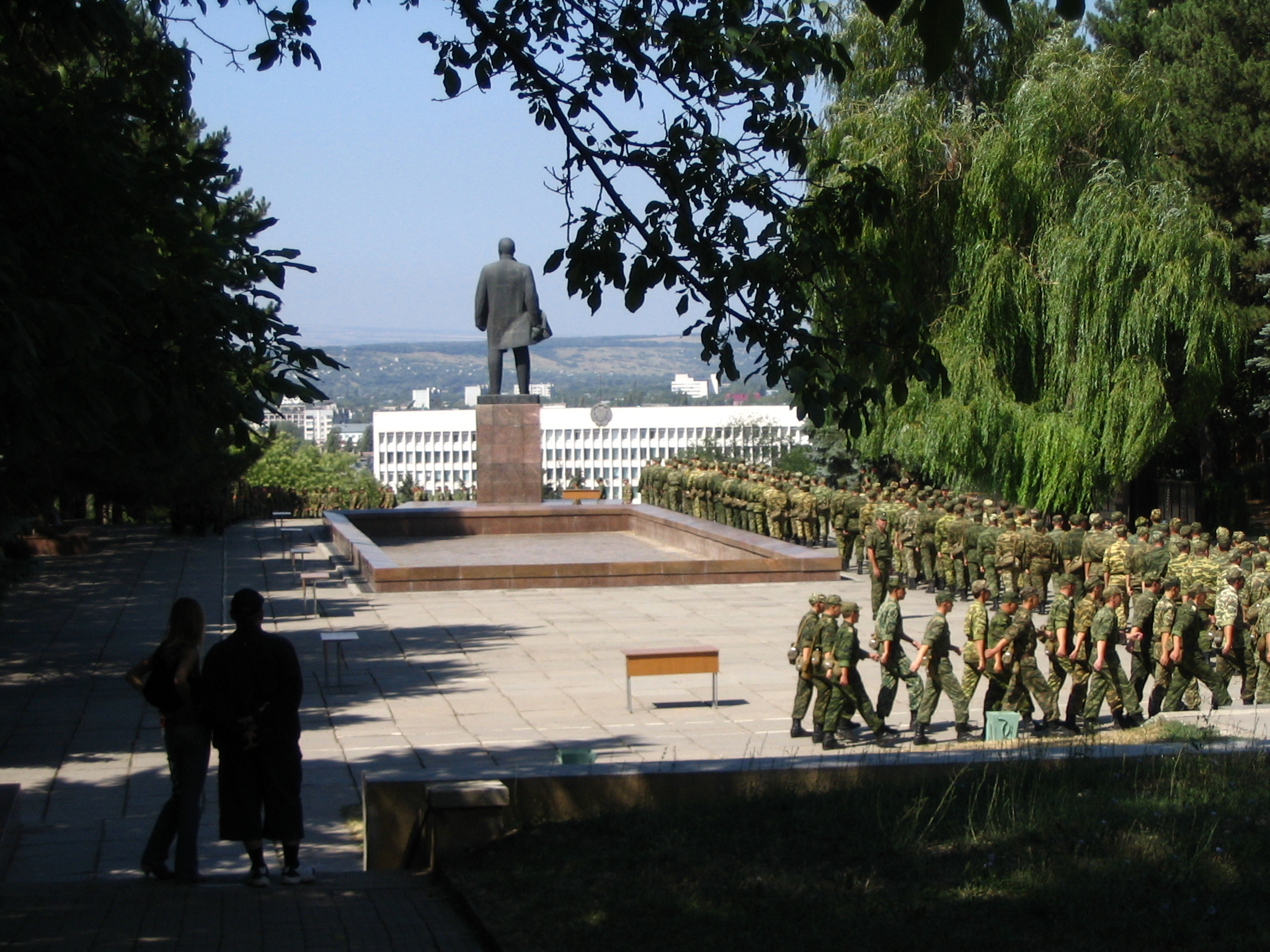 Pytigorsk